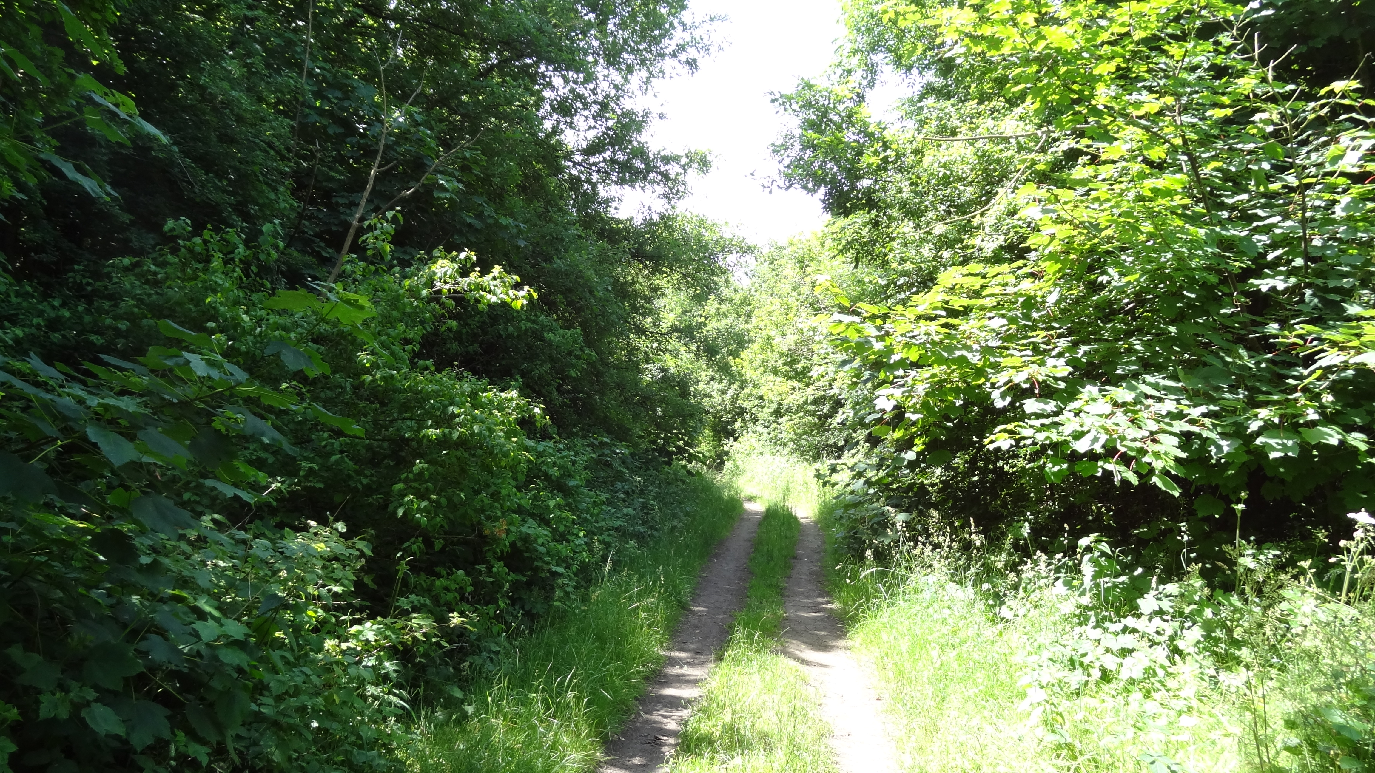 Banstead Downs SSSI in Banstead, Surrey